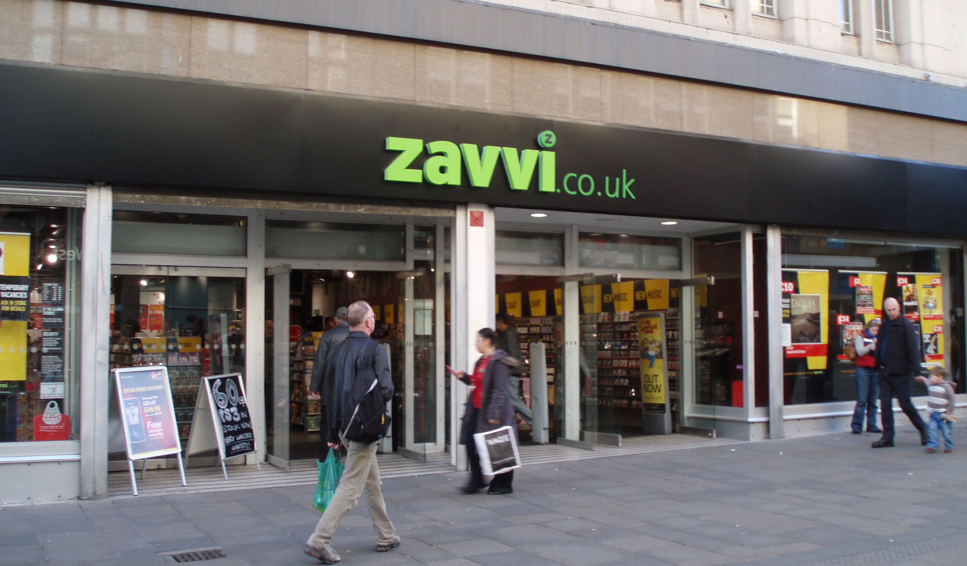 Zavvi on Northumberland Street, Newcastle upon Tyne, England in November 2007.